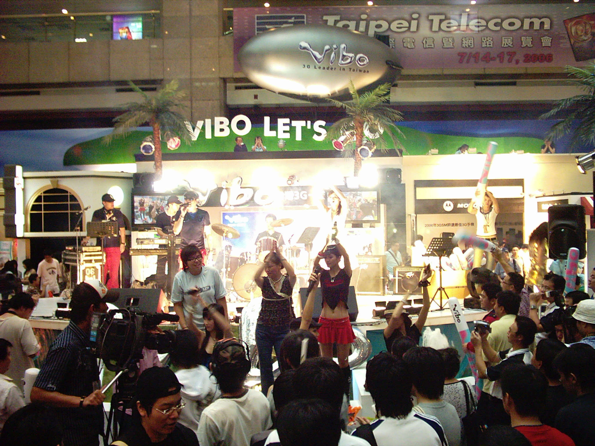 Taipei Telecom 2006: VIBO Telecom Inc. ever fined by TAITRA because their stage show was over the showground standard 85dB.